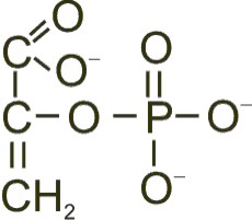 phosphoenolpyruvate formula jpg